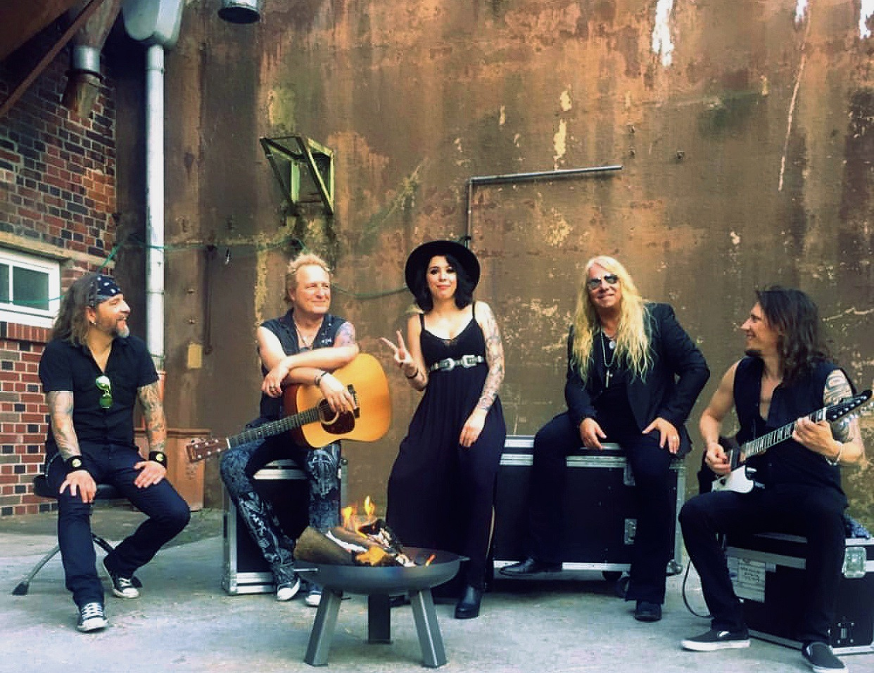 Sinner video "Death Letter"